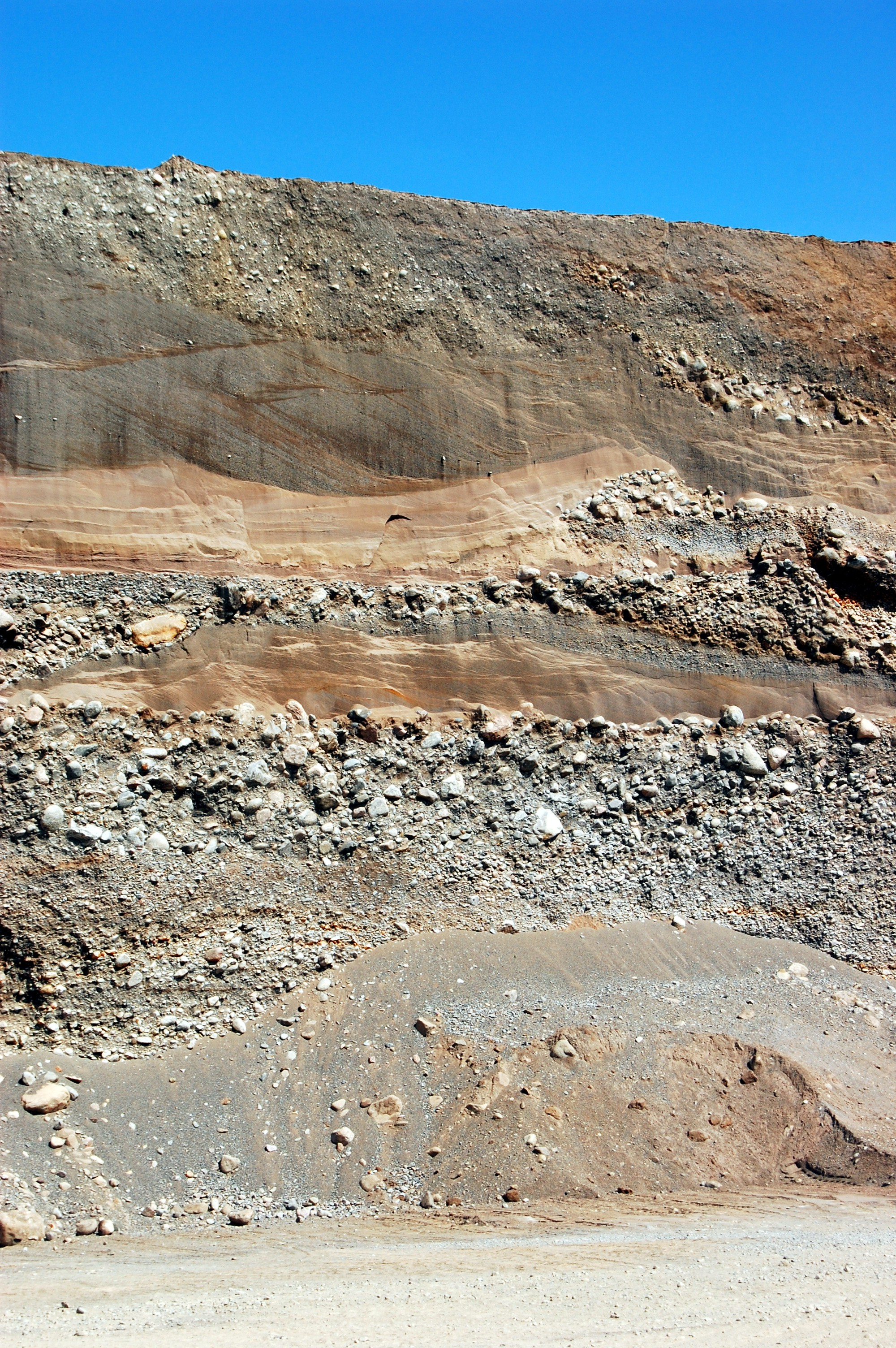 Glaciofluvial sediments (mainly sand and gravel) in the Badelunda Esker, Sweden